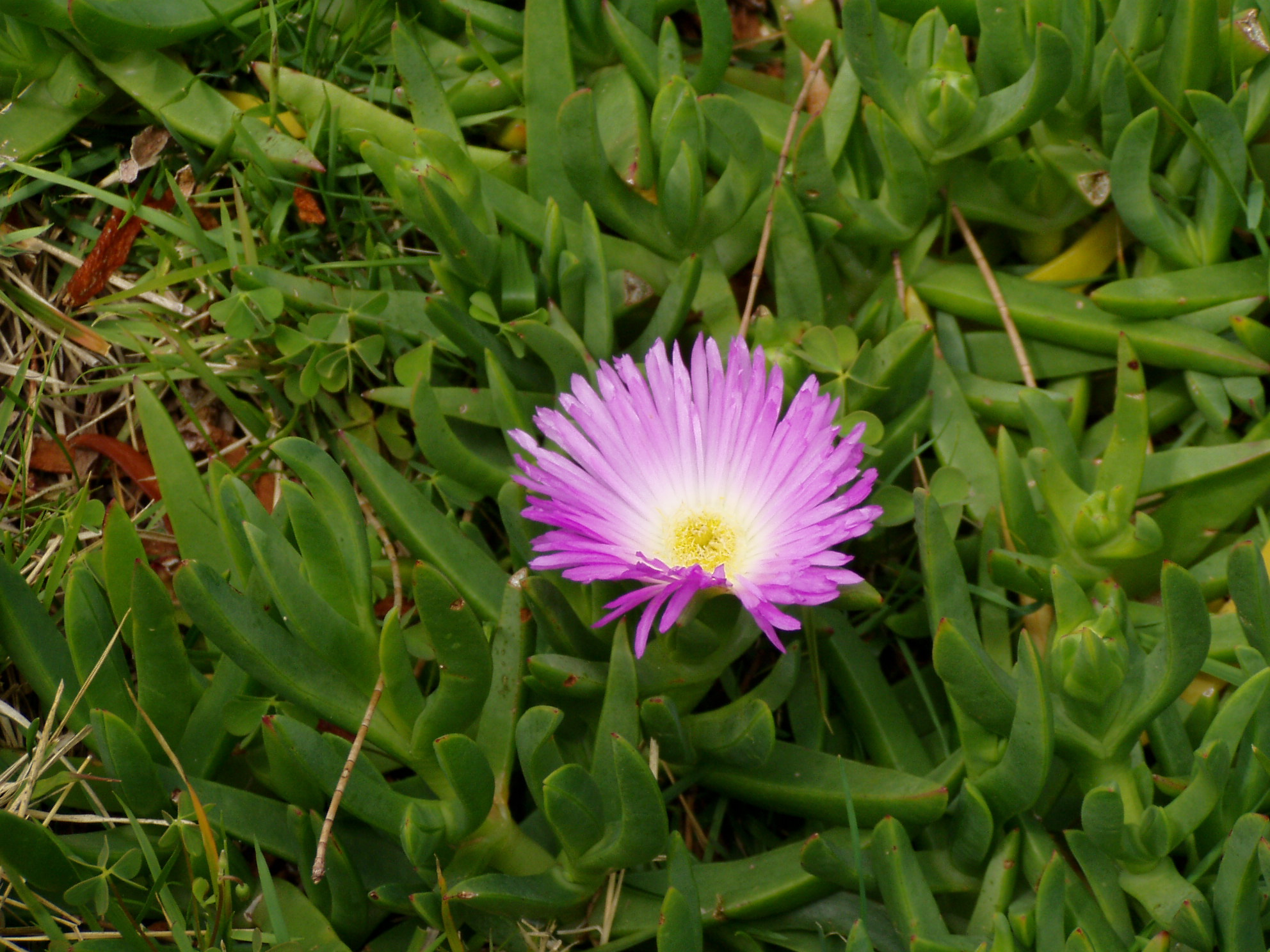 Description: Pigface (Carpobrotus glaucescens) Location: Murramarang National Park, South Durras, New South Wales, Australia Date: 2005-09-24 Source: picture taken by Danielle Langlois Licence: Released under GFDL and Creative Commons licenses by the photographer